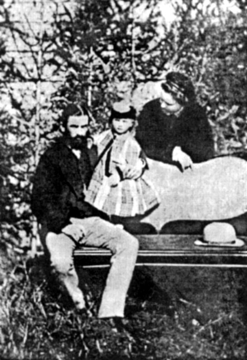 Carol I of Romania, Queen Elisabeth and Princess Maria